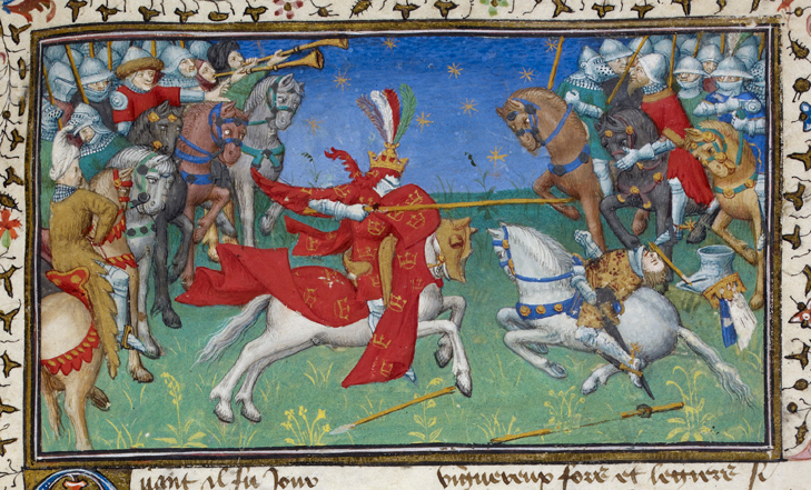 Alexander unhorses Porrus, the king of India; detail of a miniature from BL Royal MS 20 B xx, f. 53r. Held and digitised by the British Library.